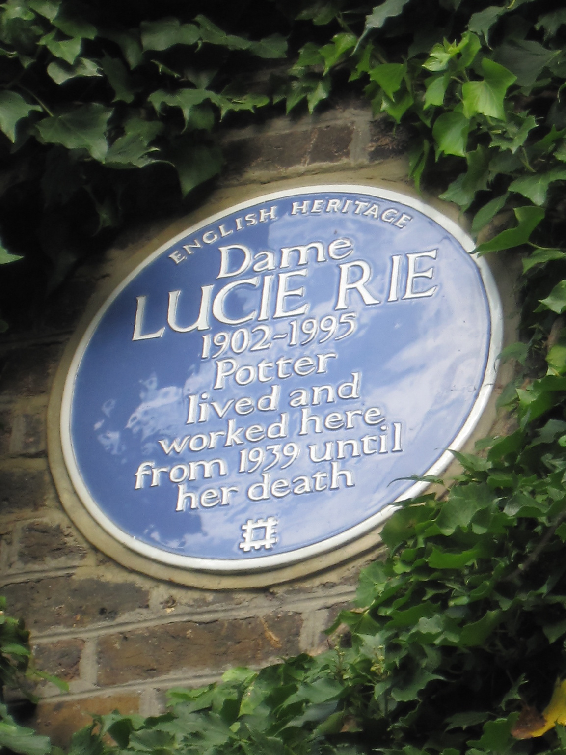 Blue plaque for Dame Lucie Rie, on 18 Albion Mews in London.